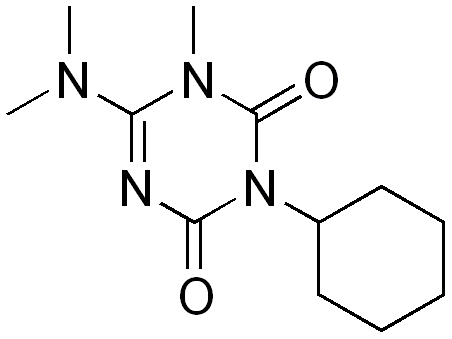 chemical structure of hexazinone